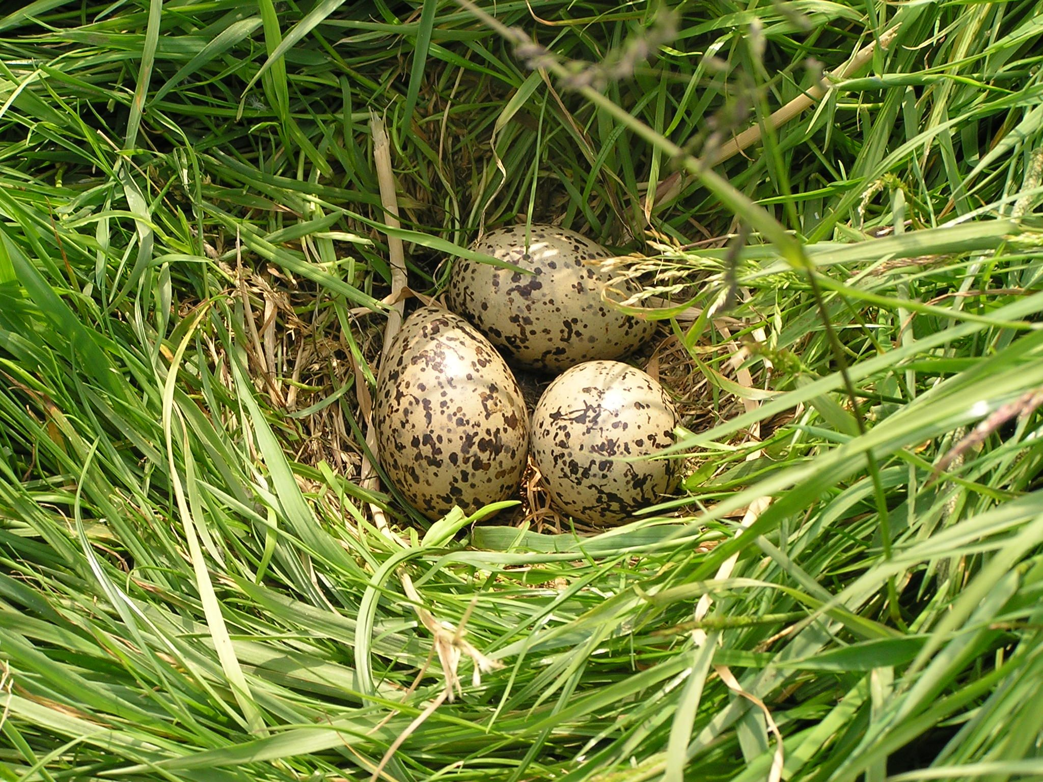 Oystercatcher nest, found in grassland near Amsterdam.